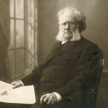 Detail of photograph taken in 1900 of Henrik Ibsen.